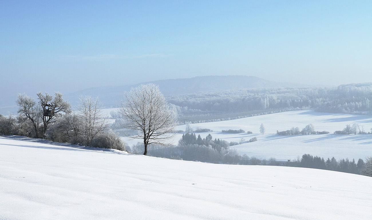 Křivoklátsko - zimní krajina